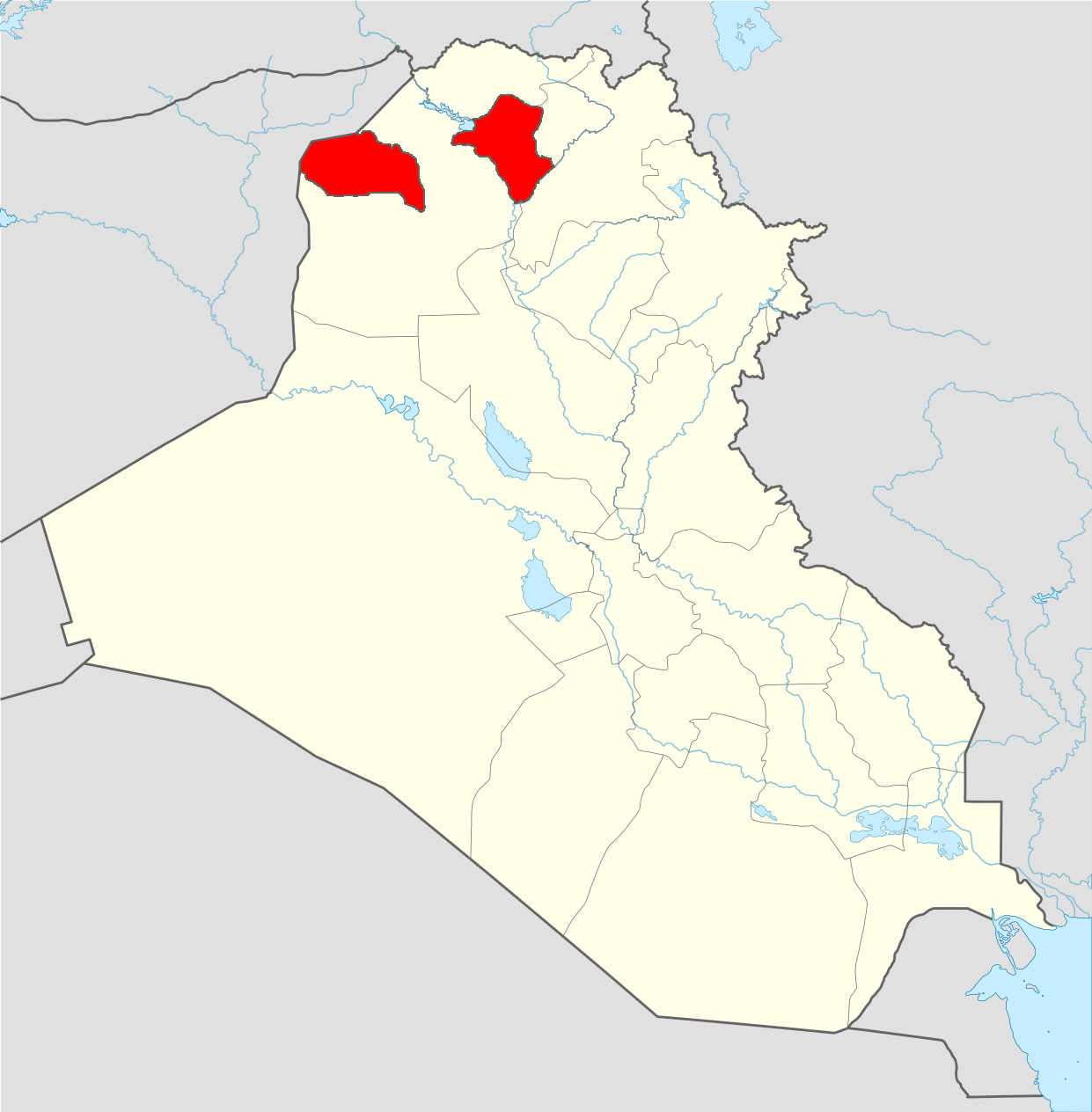 Map of Ezidkhan region.